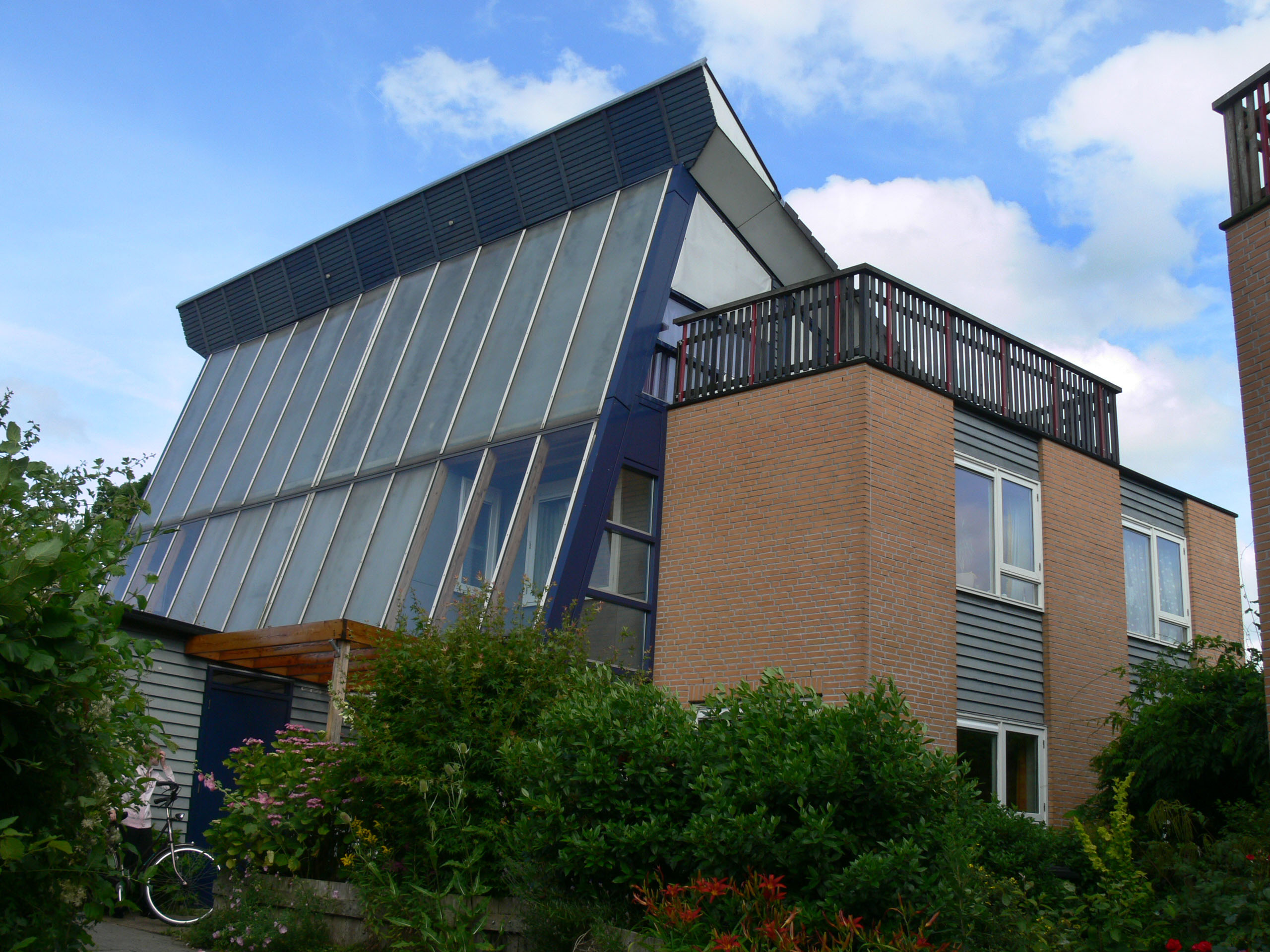 House in E.V.A. Lanxmeer district (a "green distric" named Lanxmeer, built at Culemborg, The Netherlands), wich is a recent (1994-2009) district (semi-public eco-building) of approximately 250 ecological houses, several offices and a urban farm. The project is based on "Sustainable Implant" with a spatial combinaison of natural systems, technical approach of integrated waste (wastewater) / energy system and écological and social purposes, for an urban neighborhood. The district is in an ecologically sensitive area (former drinking waterextraction and retention area). The conception of this district is based on permaculture, and organic design, a small biogas installation (able to treate black water and organic waste and garden & park waste), a combined Heat Power. Some houses are in closed greenhouse. A semi-public building (the ‘EVA Centre) should yet be made, based on the Living Machine concept.